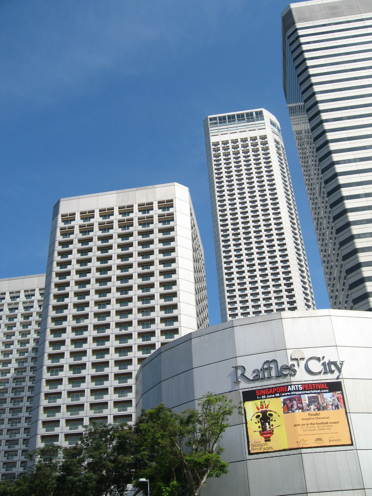 Raffles City development.